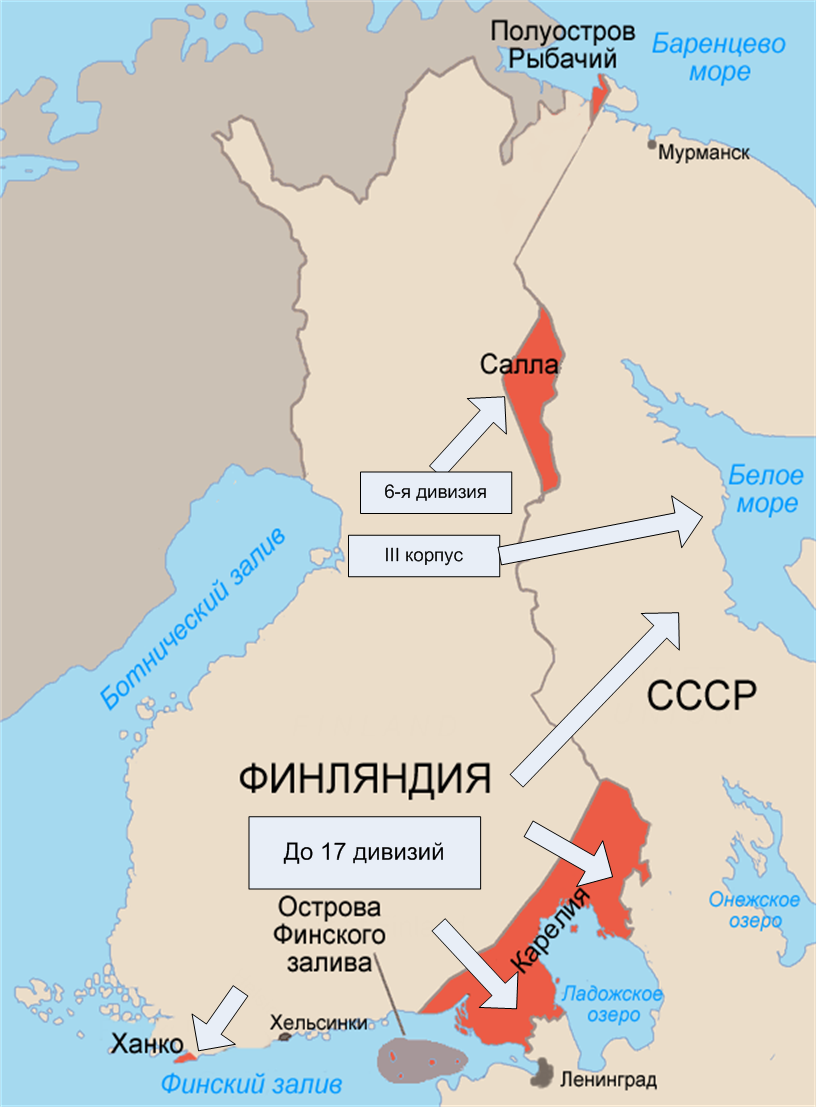 Directions of attacks planned for Finland during the Barbarossa (invasion of Hitler into Russia in 1941). Own work, based on Finnish areas ceded in 1940 RUS.png and [1]